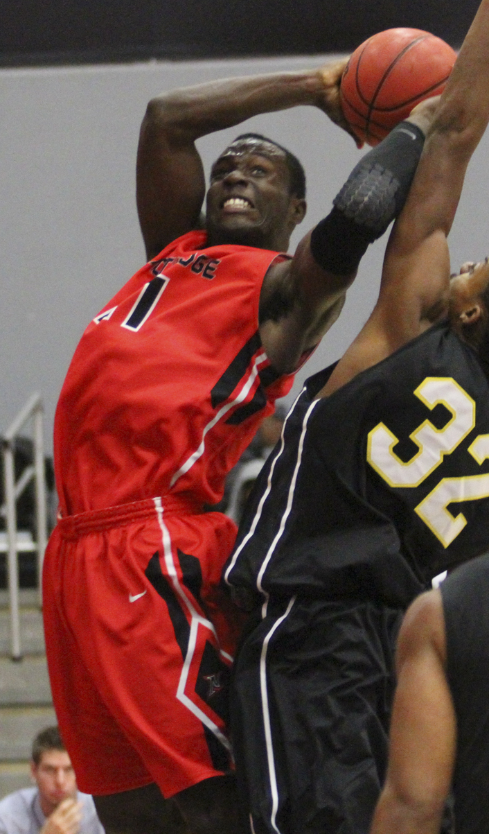 Stephen Maxwell drives to the rim with Cal State Northridge in 2013.